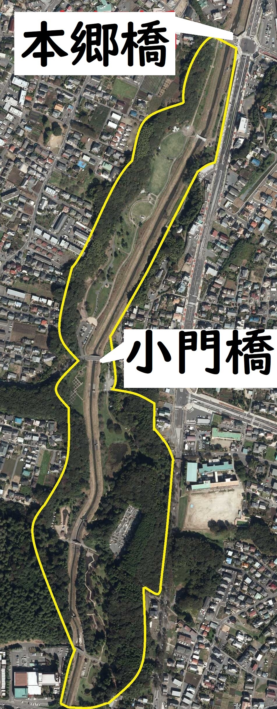 Sakasagawa Ryokuti. Mito ,Ibaraki.